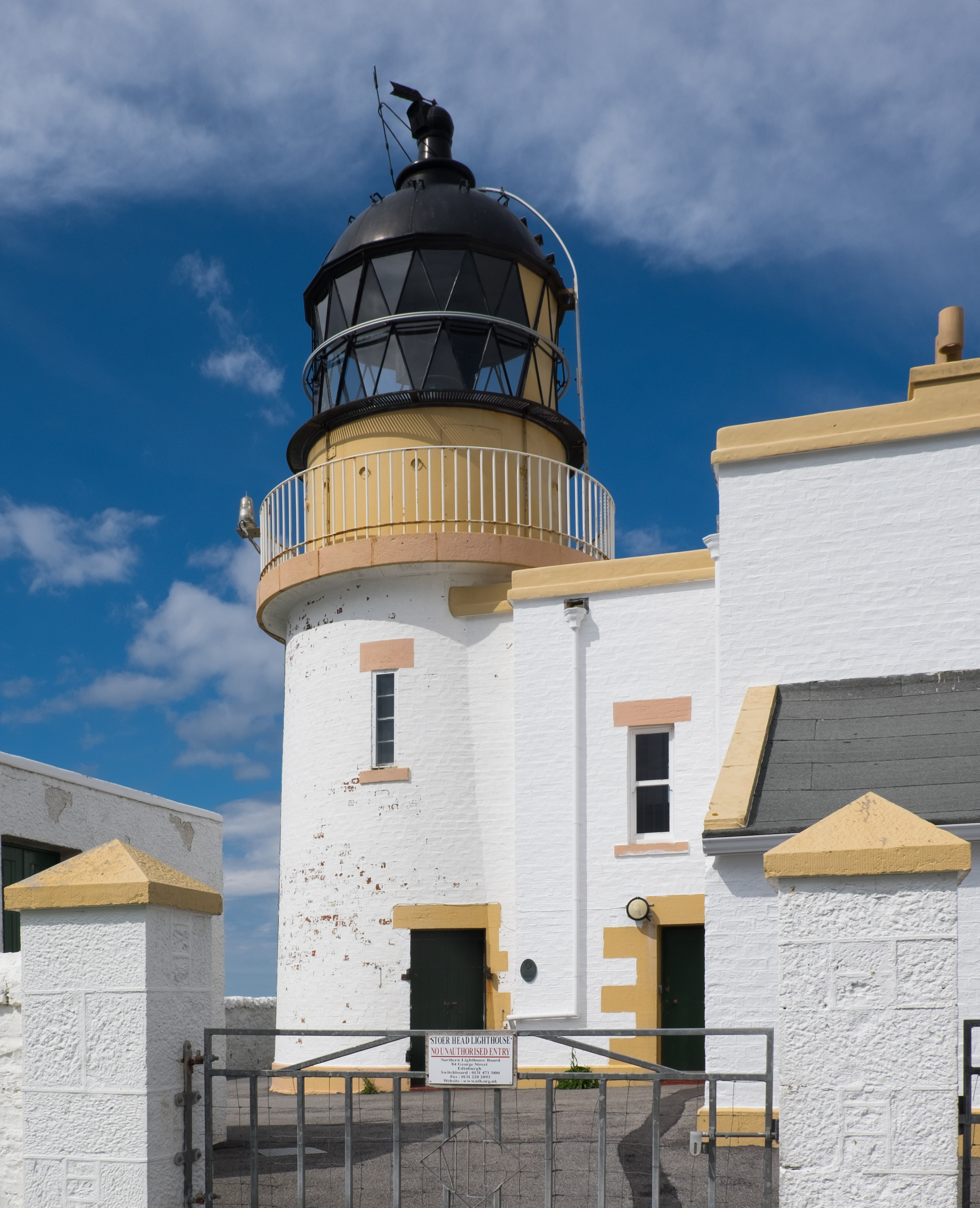 Stoer Head Lighthouse